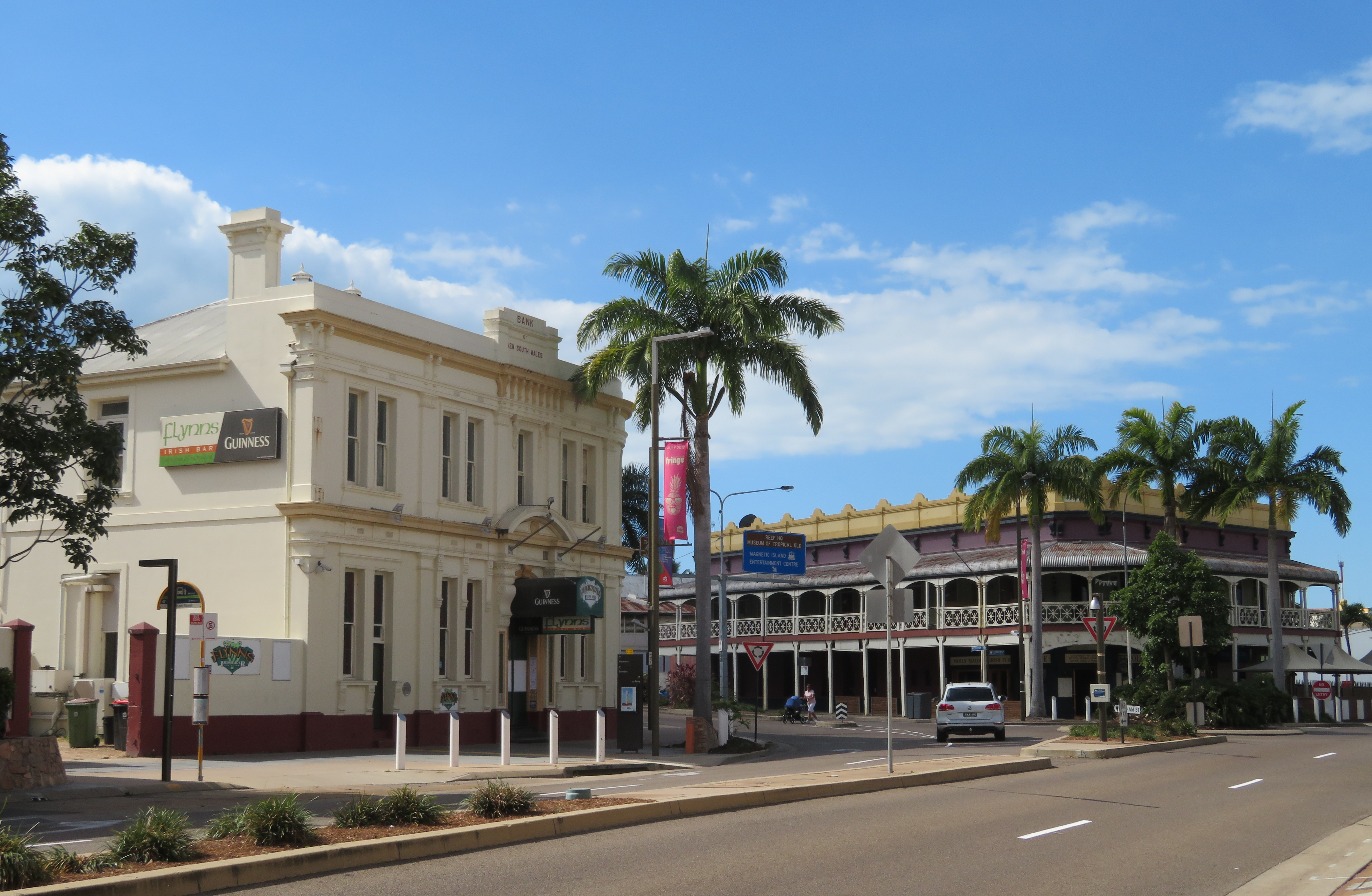 Flinders St, Townsville, Queensland, Australia